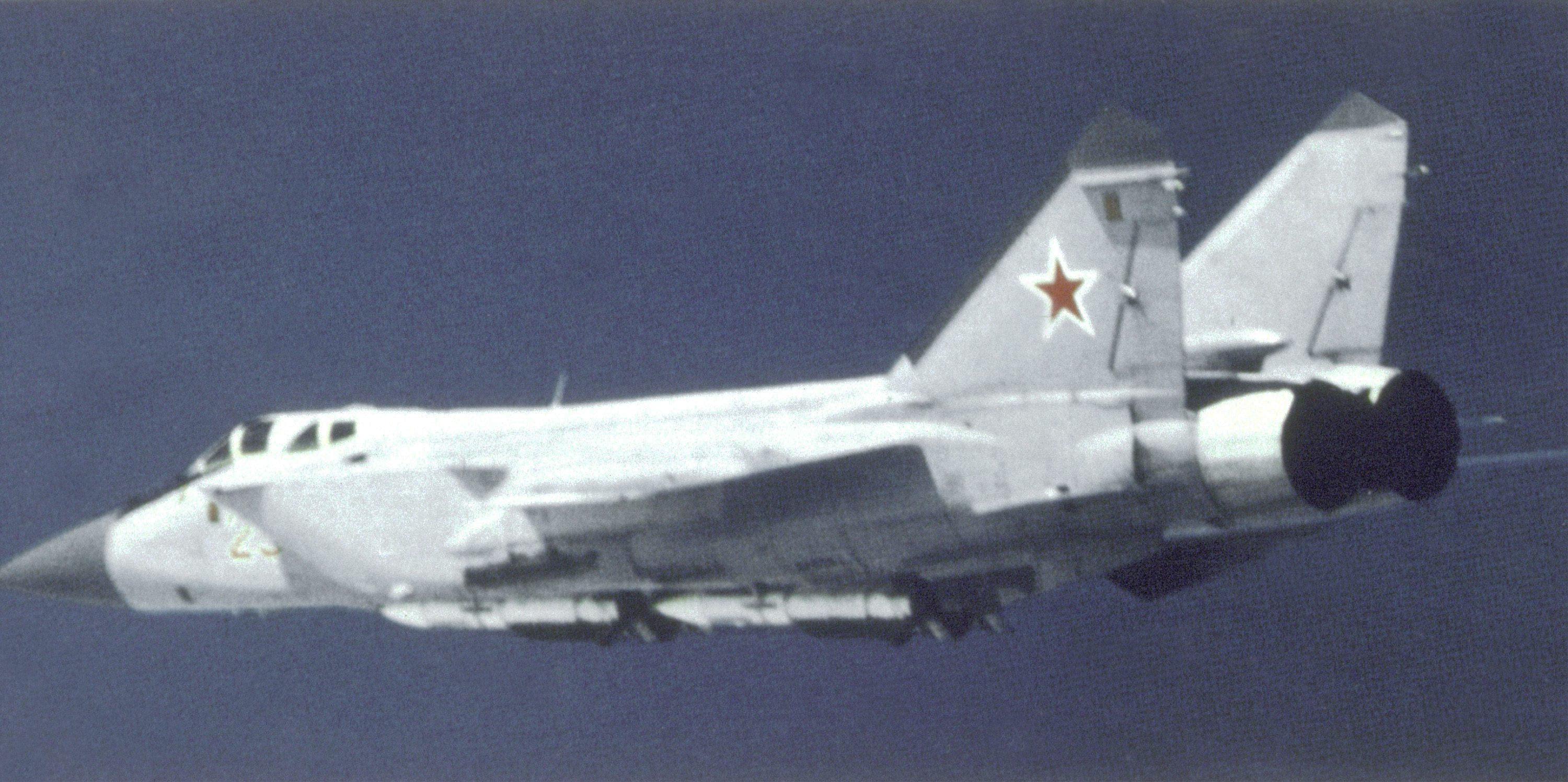 An air-to-air left side view of a Soviet MiG-31 Foxhound aircraft. Date Shot: 1 Jan 1987